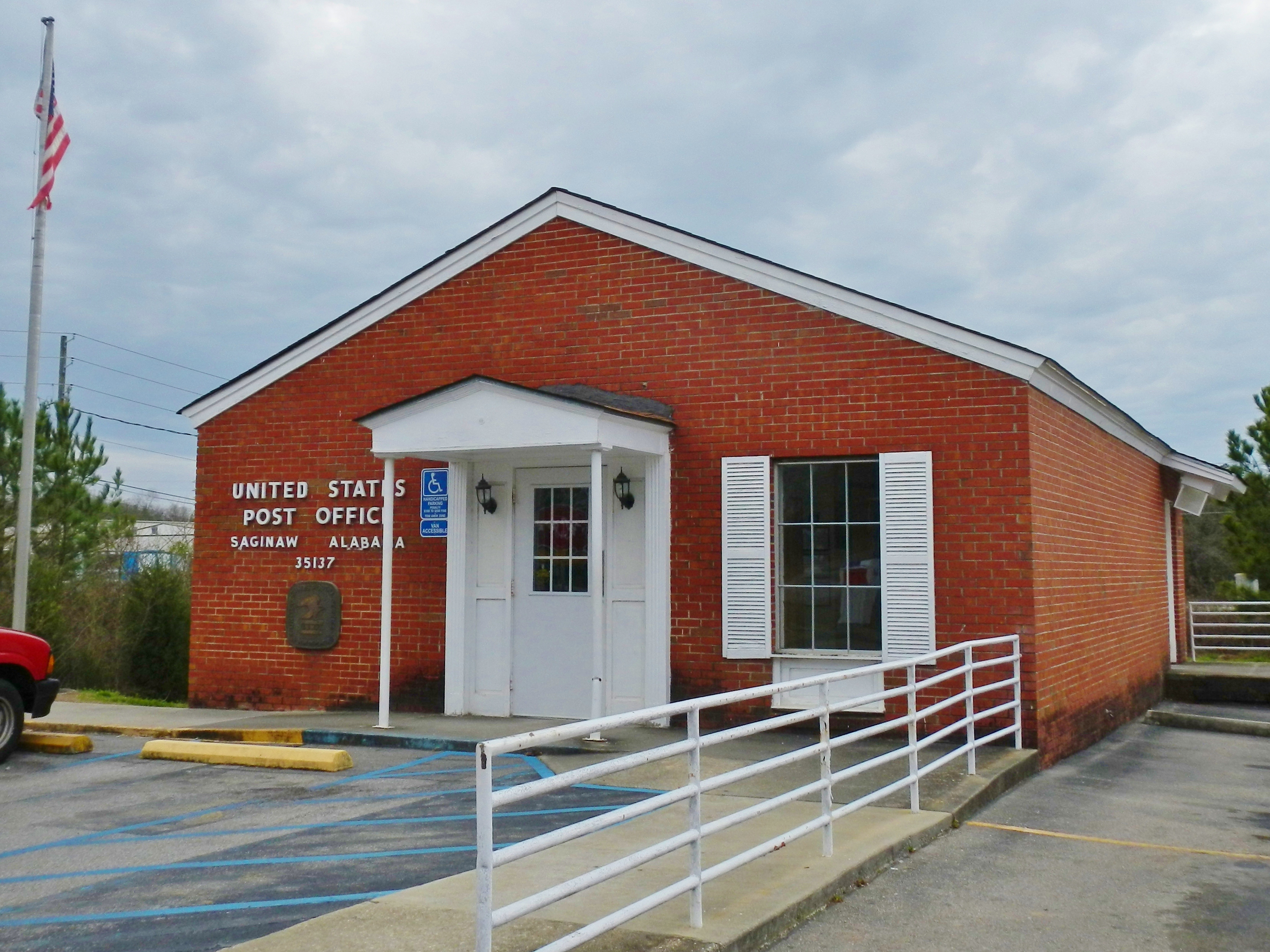 This is a photograph of the post office in Saginaw, Alabama (ZIP code 35137).